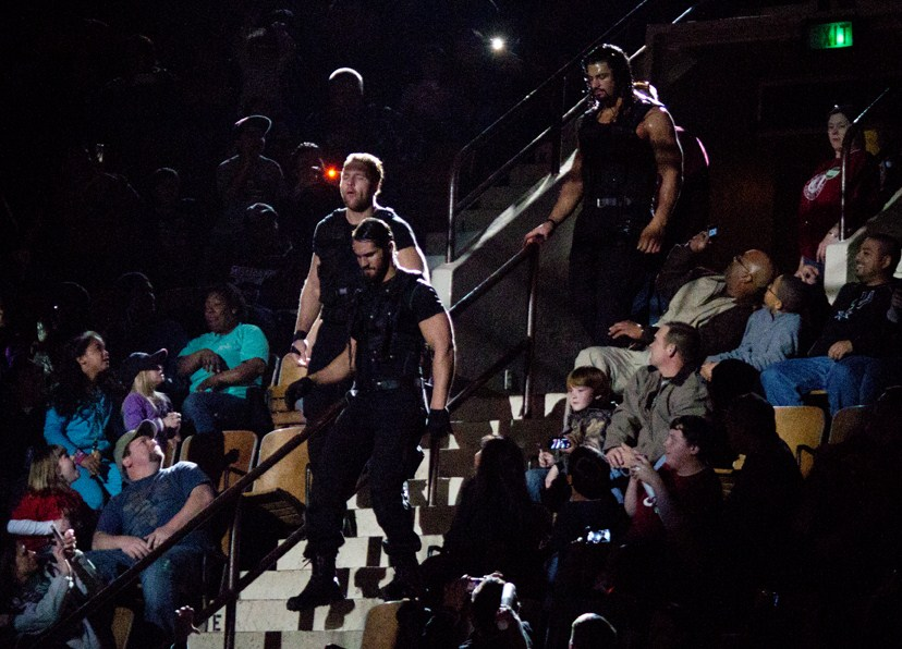 The Shield make their entrance during a WWE house show on February 2, 2013 in Montgomery, Alabama.